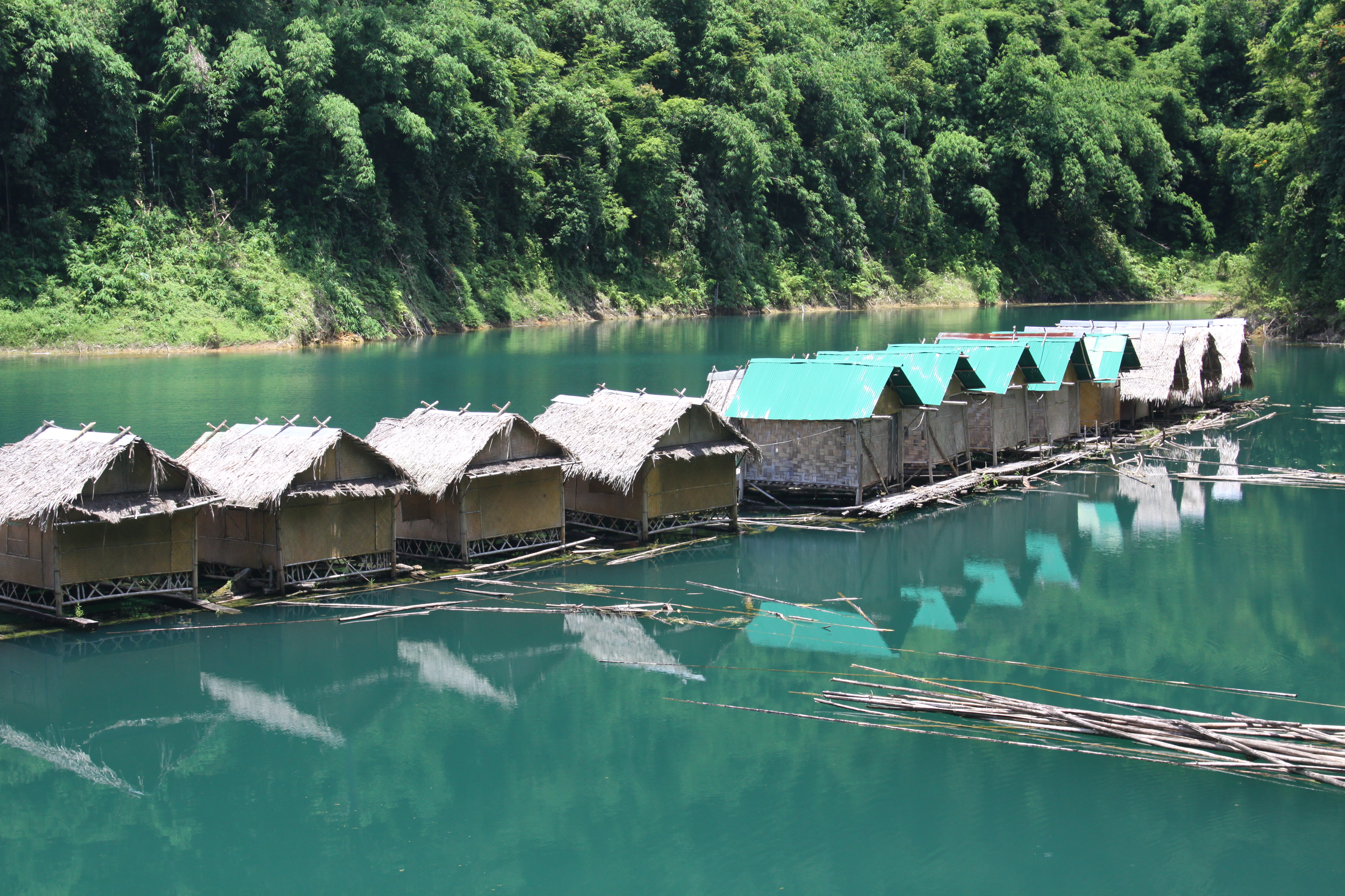 In Khao Sok, national park of Thailand, rafthouses were floating on the lake.